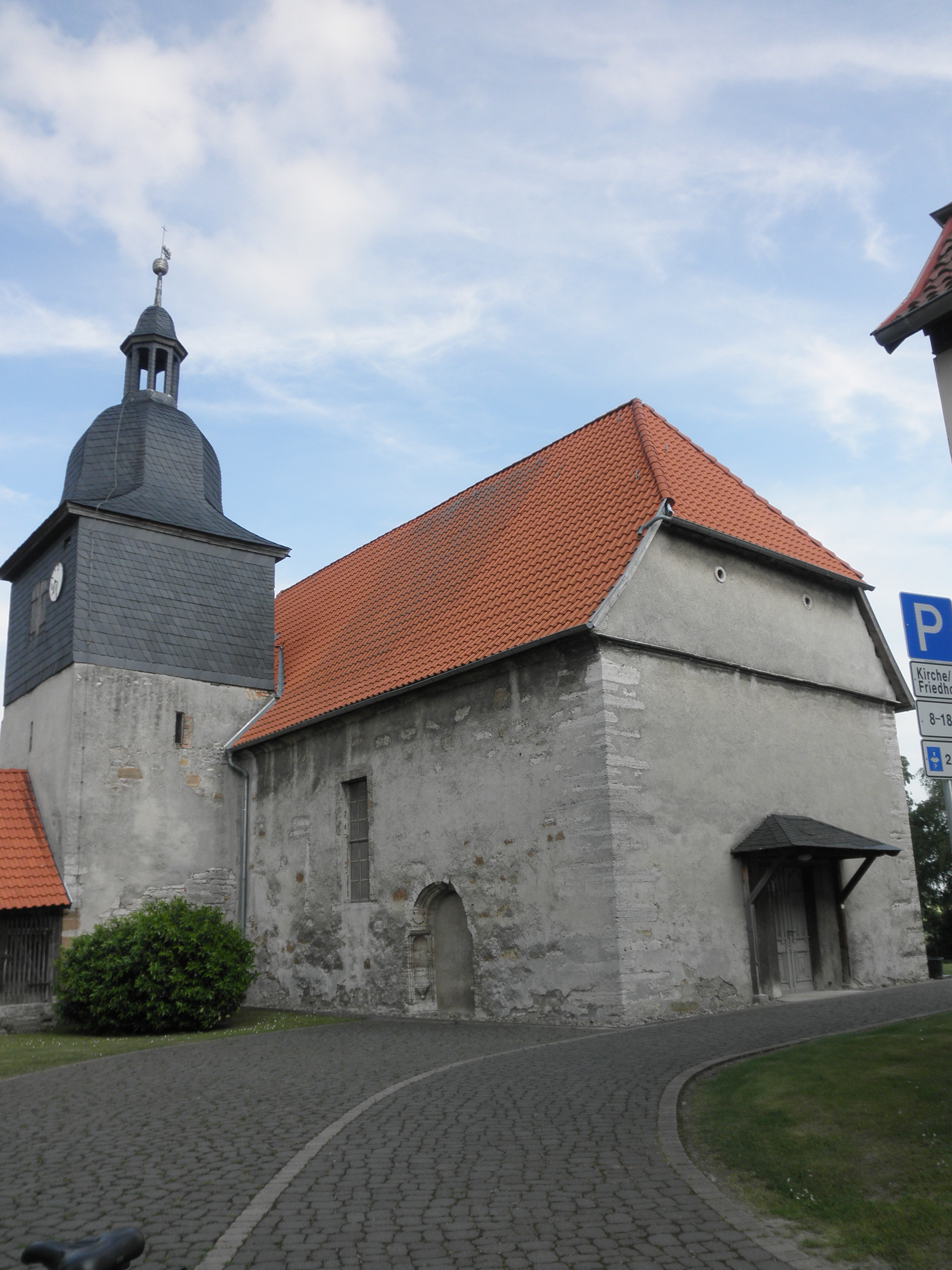 Church in Henningsleben (Thüringen)